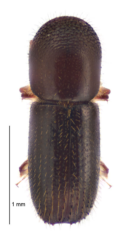 Dorsal view of a specimen of Xyleborinus saxeseni photographed by Landcare Research New Zealand Ltd.